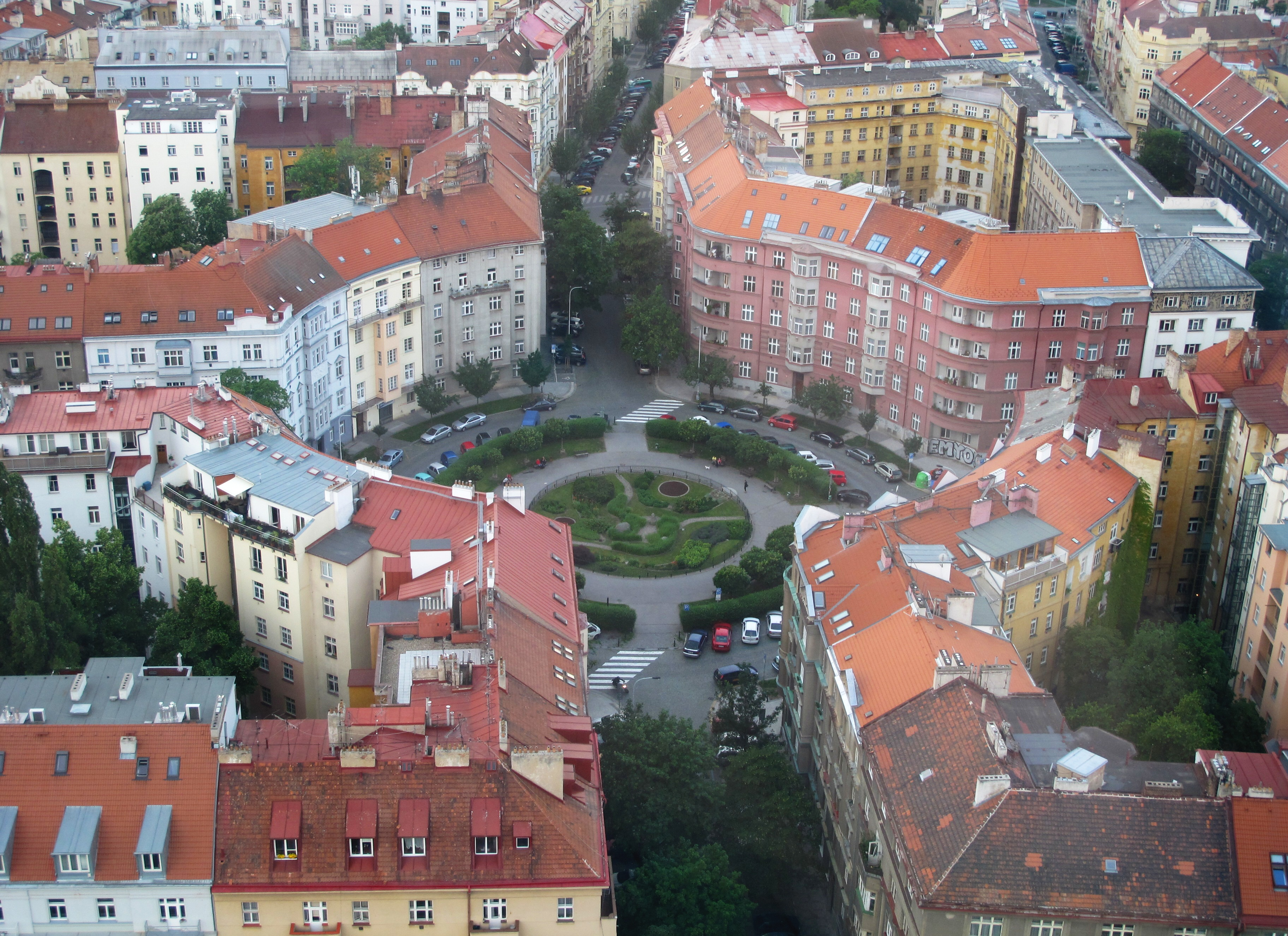 View from Žižkov television tower, Prague